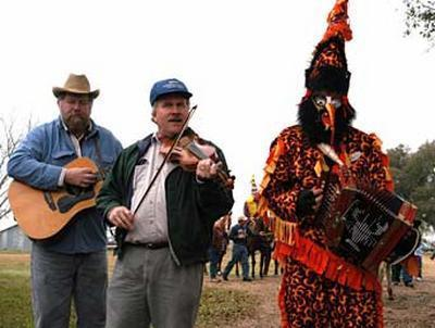 Iota Mardi Gras (21st century)